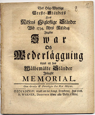 Title page of a 1734 ecclesiastical/political Swedish memorial